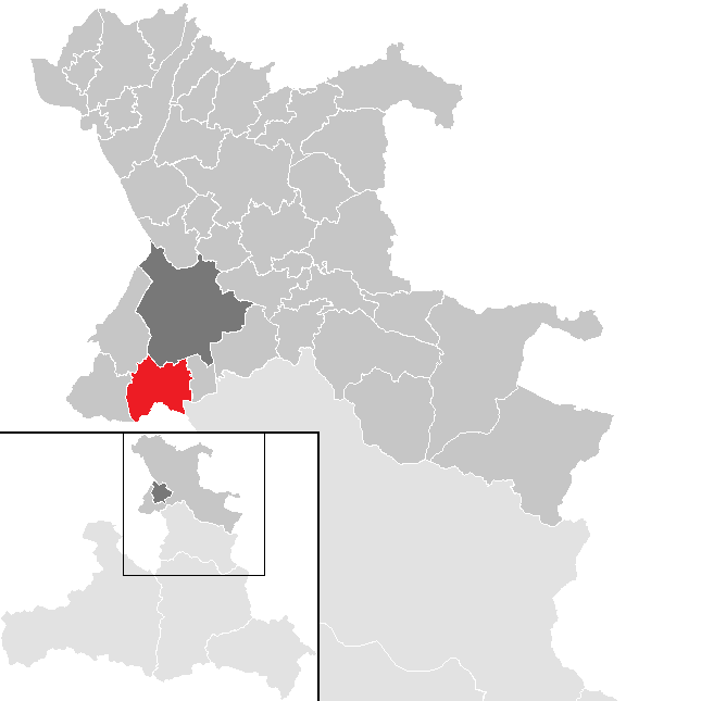 District Salzburg-Umgebung